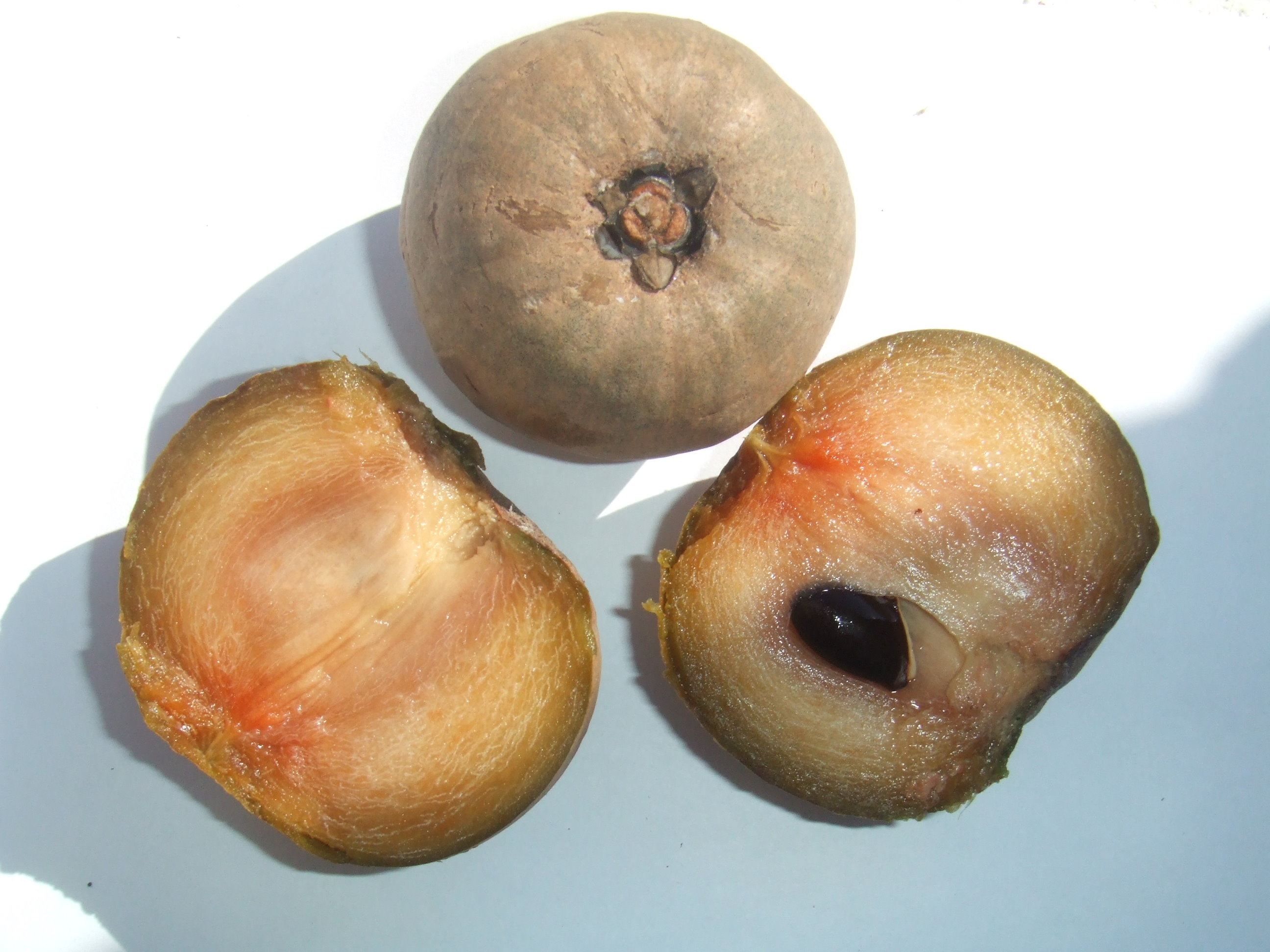 Manilkara zapota, bought at the Binnenrotte market in Rotterdam, The Netherlands